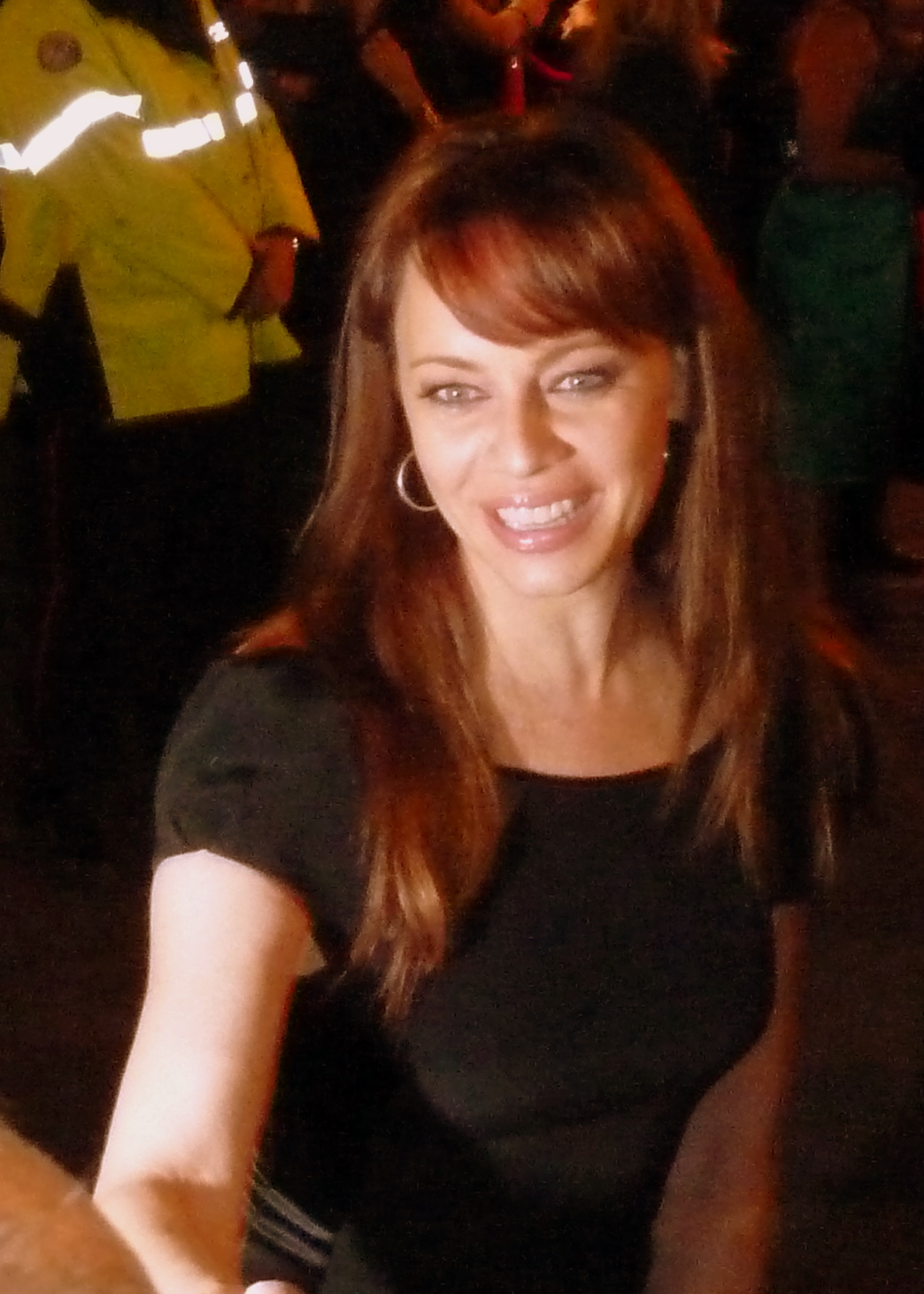 Melinda Clarke, Instyle Party Toronto Film Festival 2011